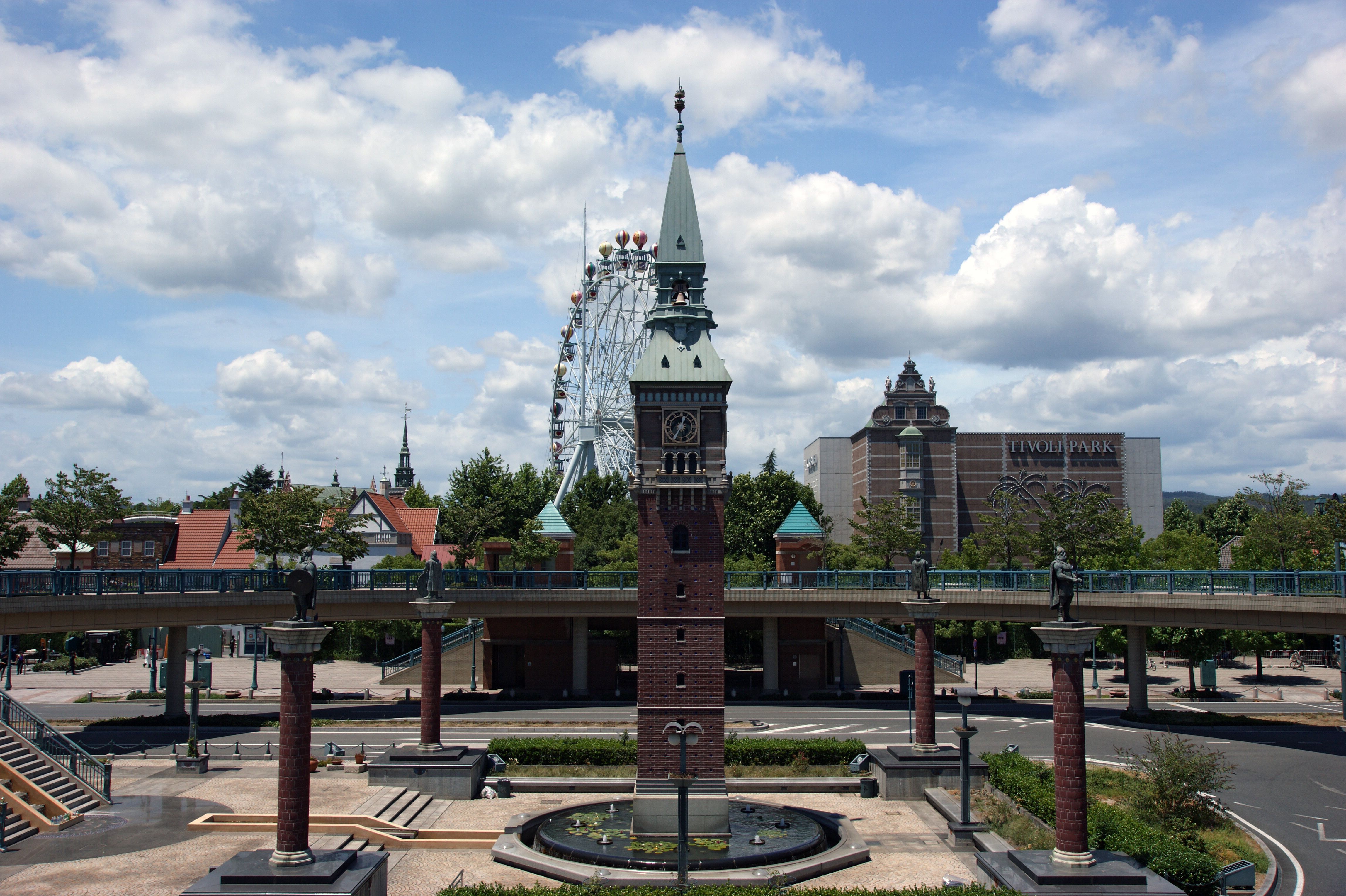 Kurashiki Tivori Park in Kurashiki, Okayama prefecture, Japan